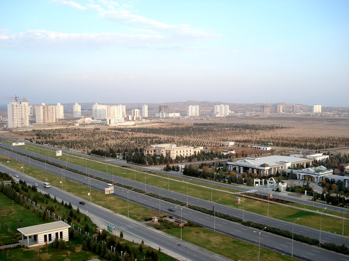 Ultra-modern highways in Ashgabat were constructed recently